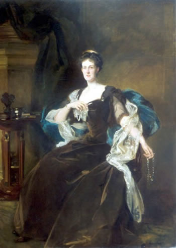 Countess of Lathom John Singer Sargent -- American painter 1904 Chrysler Museum of Art, Norfolk, Virginia Oil on canvas 229.2 x 171.5 cm (90 1/4 x 67 1/2 in.) Inscribed: (Upper right:) John S. Sargent 1904 signed Accession Number: 71.502 Gift of Walter P. Chrysler, Jr Jpg: Chrysler Museum of Art